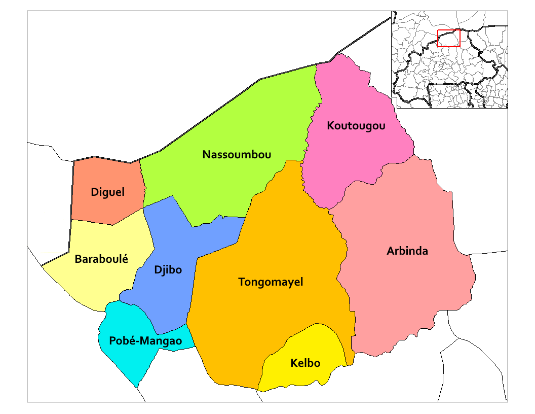 This map has been uploaded by Osiris fancy from to enable the Wikimedia Atlas of the World. Original uploader to was Rarelibra. Osiris fancy is not the creator of this map. Licensing information is below. Map of the departments of Soum province in Burkina Faso. Created by Rarelibra 03:36, 30 September 2006 (UTC) for public domain use, using MapInfo Professional v8.5 and various mapping resources.